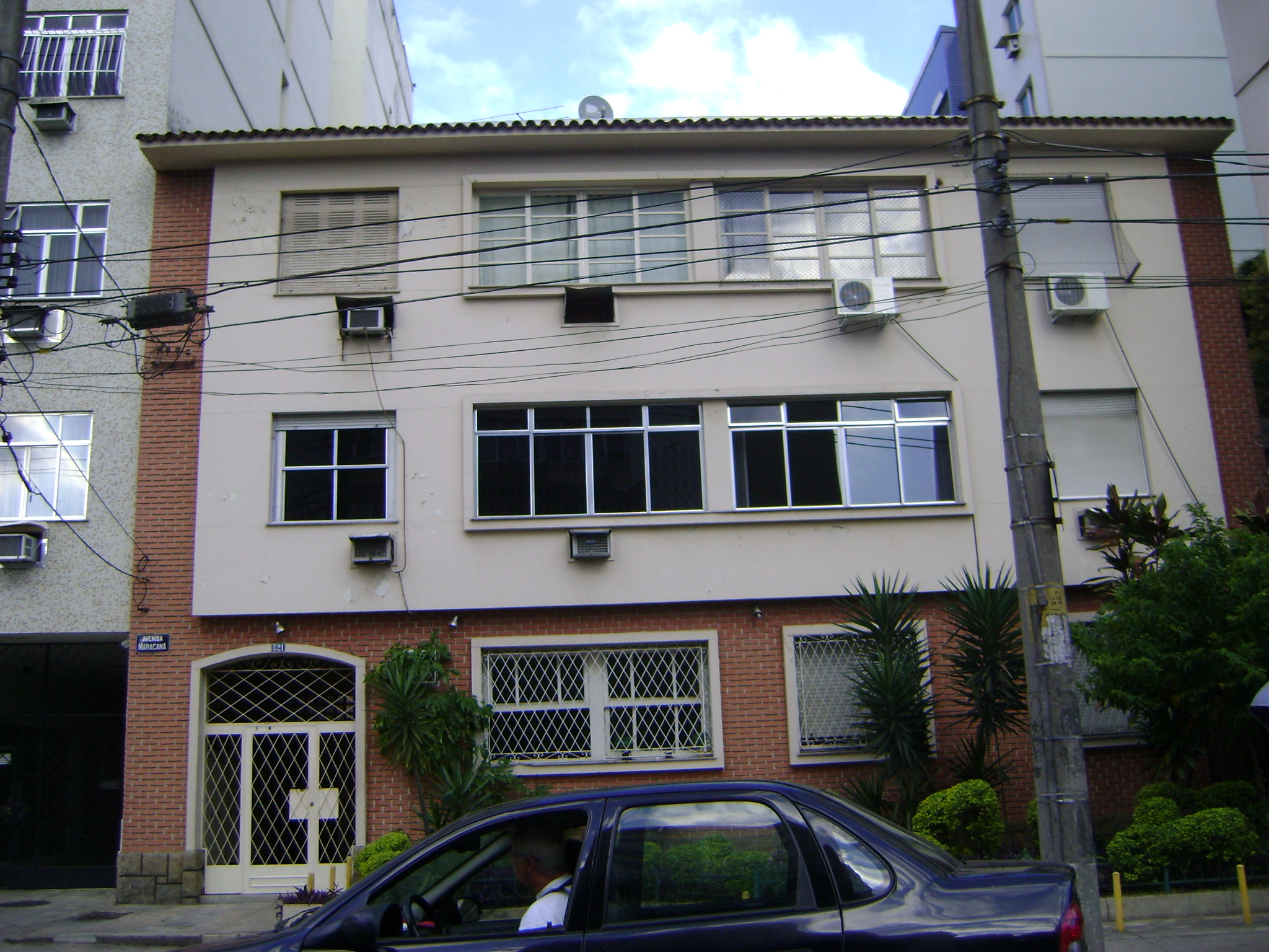 House in Maracanã Avenue, Maracanã, Rio de Janeiro, Brazil.